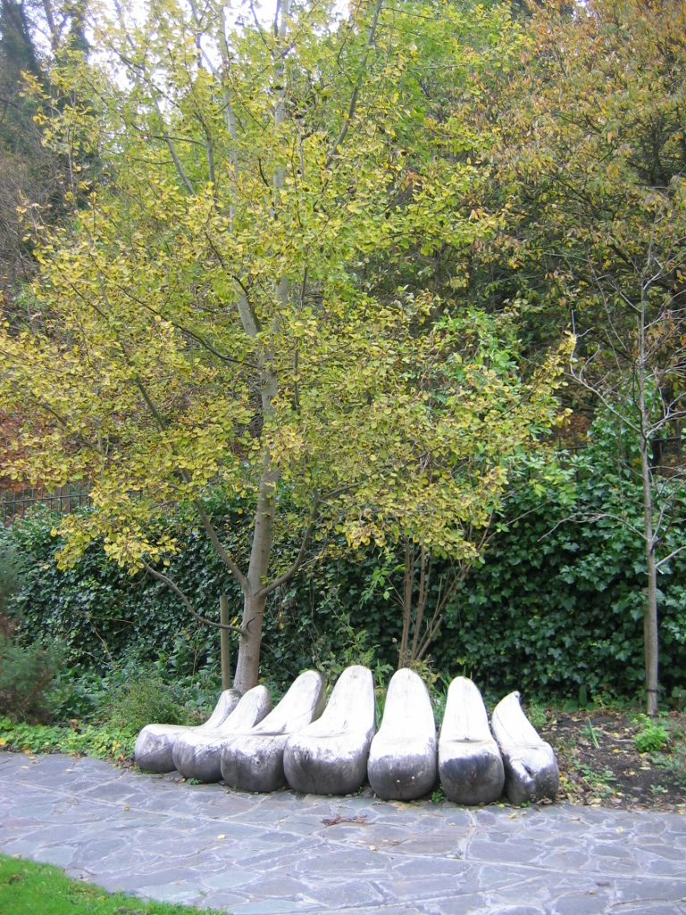 Stirling Art Gallery, Scotland